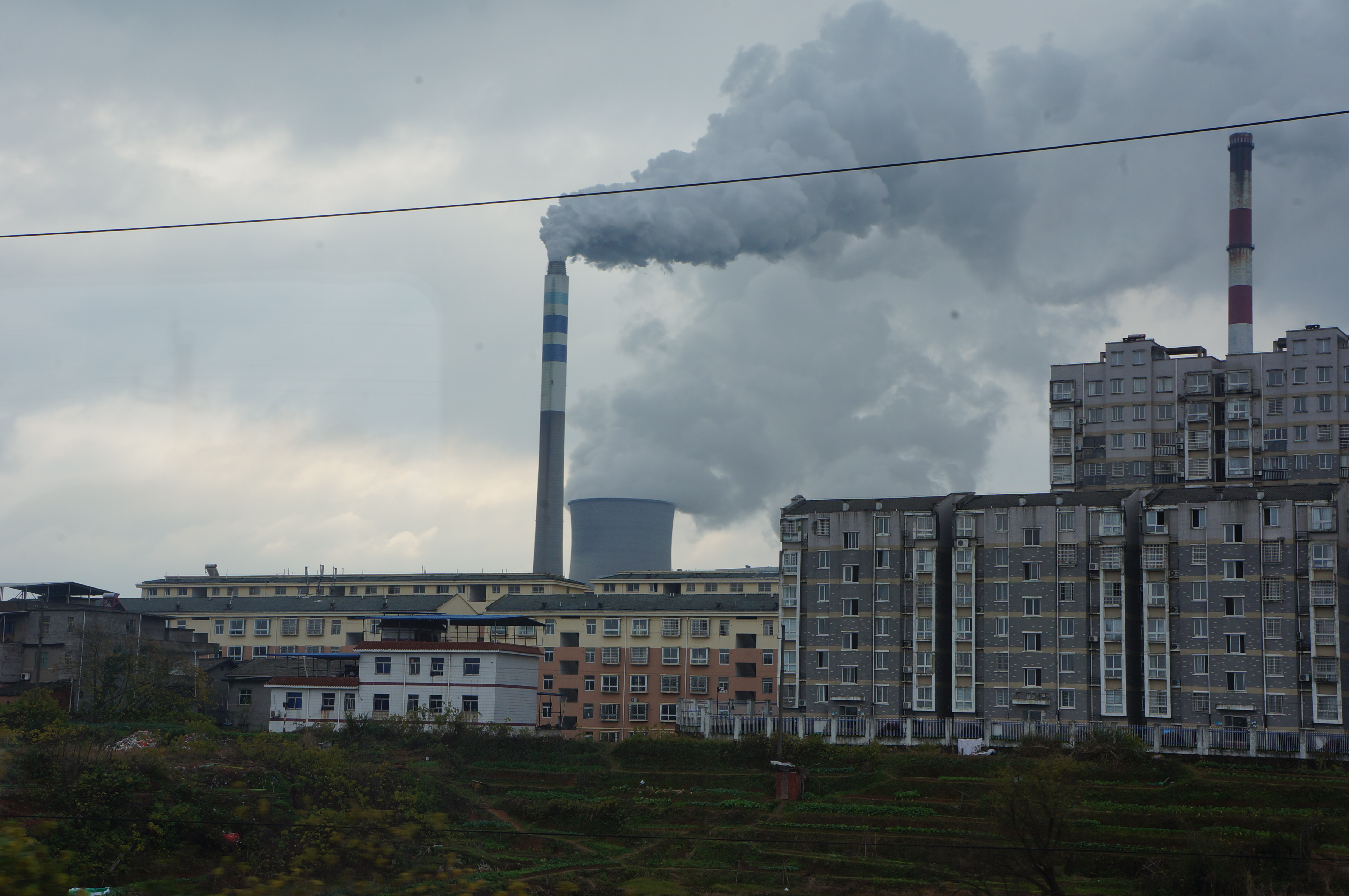 201612 Guixi Smelter of Jiangxi Copper Corporation